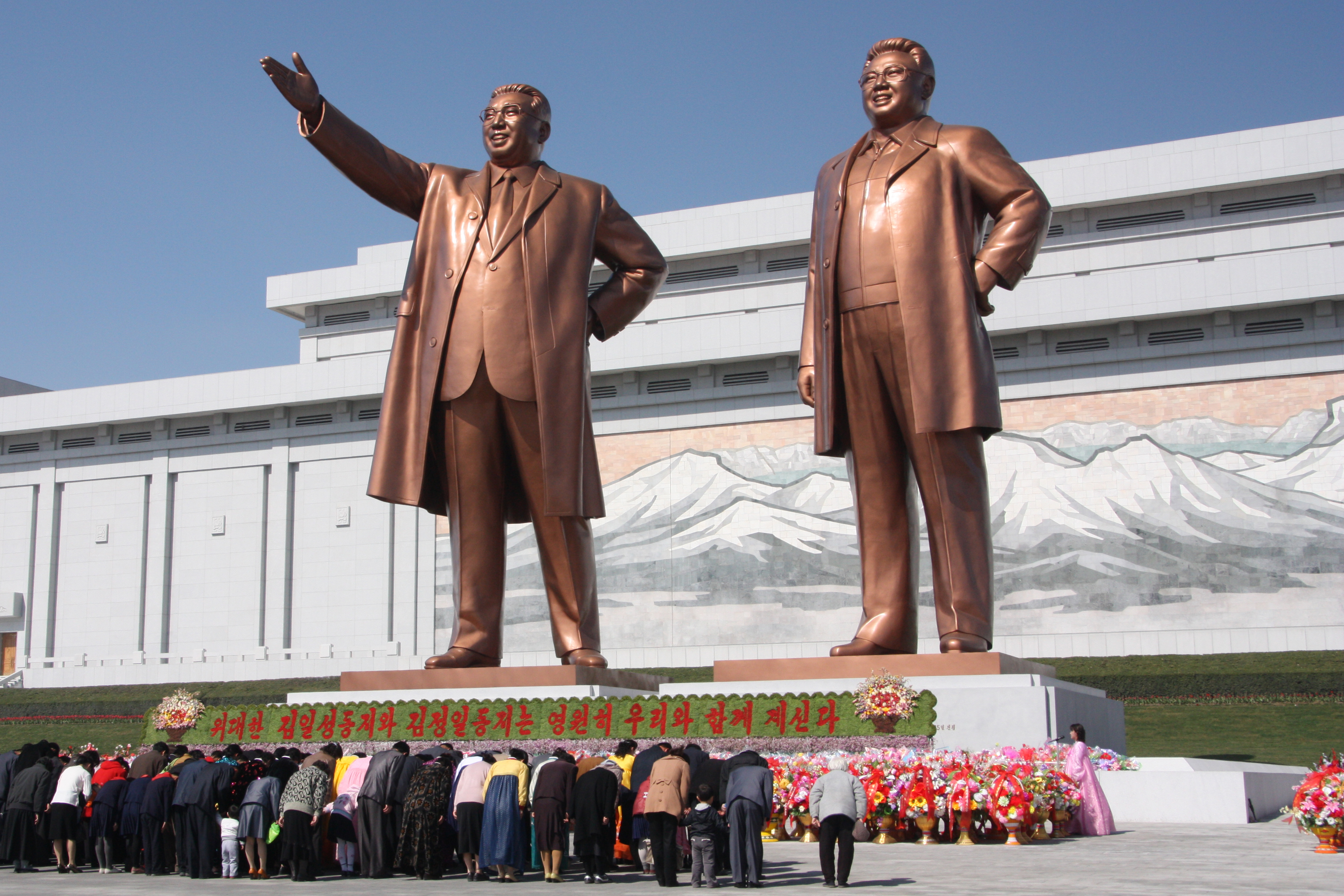 The statues of Kim Il Sung (1912-1994), on the left, and Kim Jong-il (1941/42-2011) on Mansu Hill in Pyongyang (April 2012)